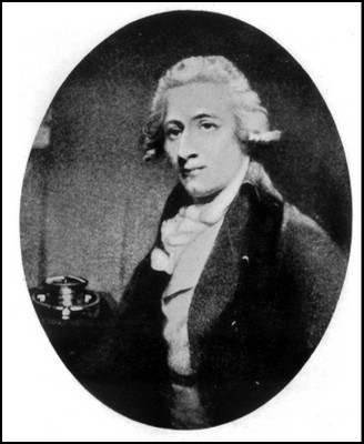 (PD by age)